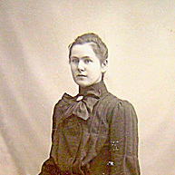 A young Aune Krohn (6 March, 1881 – 16 January, 1967). She was a Finnish evangelical Christian, a writer and translator. Guess at 1910